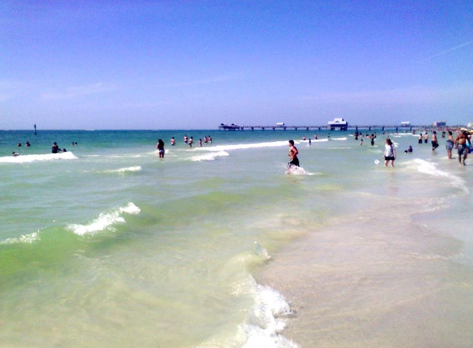 Beautiful water at Pier 60 in Clearwater Beach on a nice Spring Afternoon.